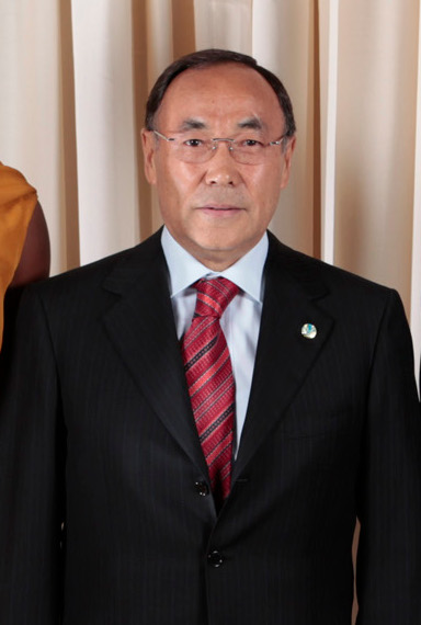 Kanat Saudabayev